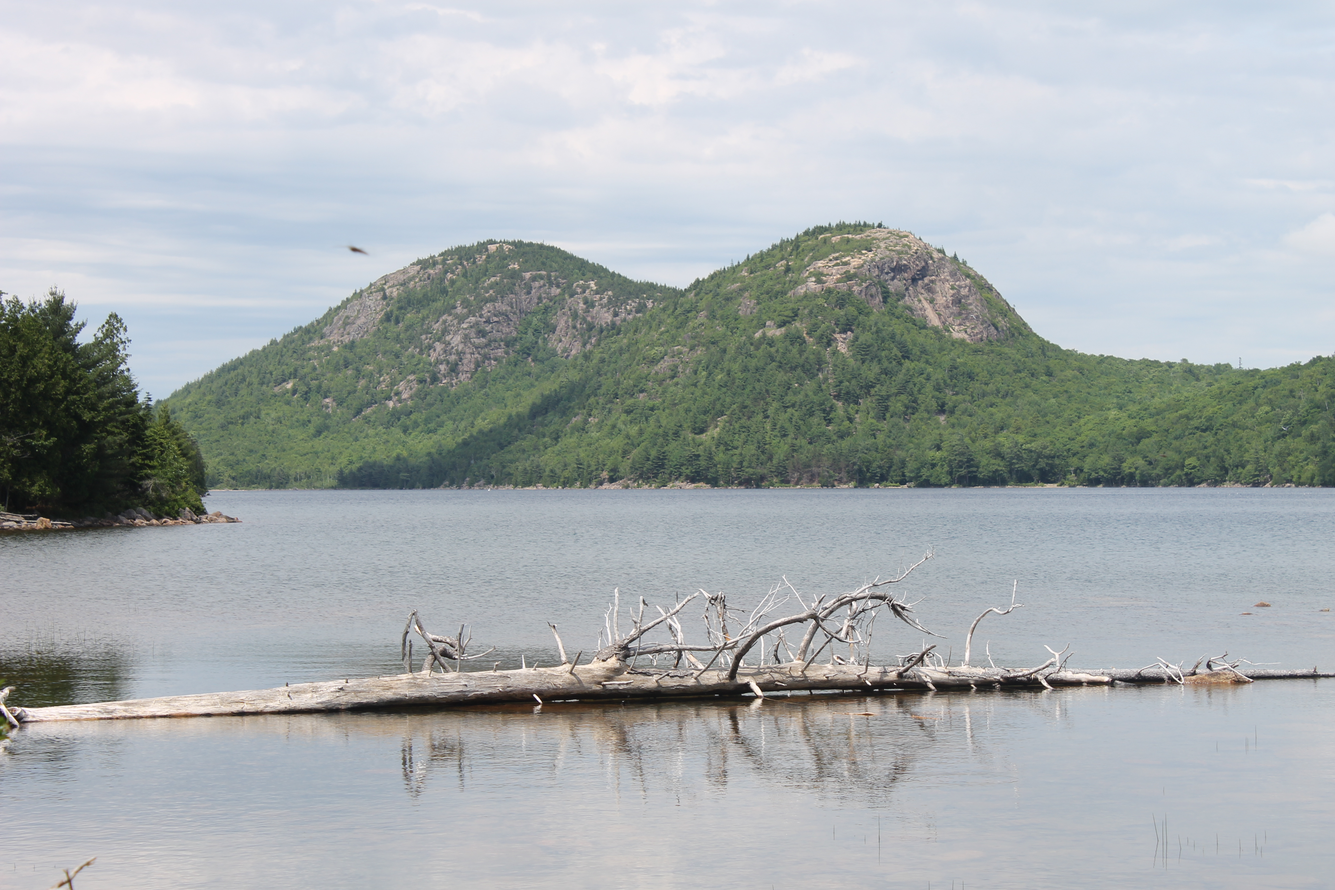 I took photo of "The Bubbles" mountains at Jordan Pond in Acadia National Park with Canon camera.